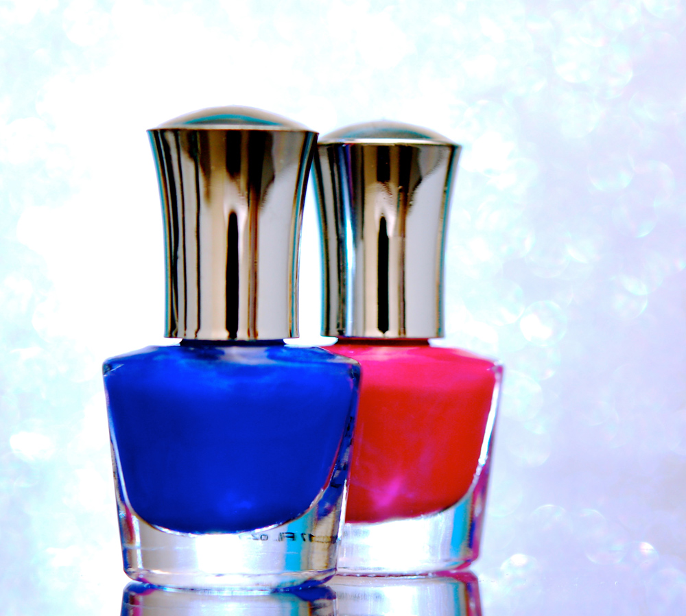 My daughter's fingernail polish.